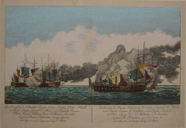 COMBAT between the Dutch frigates Castor, Captain Pieter Melvill and Briel, Captain Gerard Vorthuis; and the English Frigates Flora, Captain William Peere Williams and Crescent, Captain Thomas Pakenham, occurred on the 30th May 1781, at the height of Cape St. Marie.